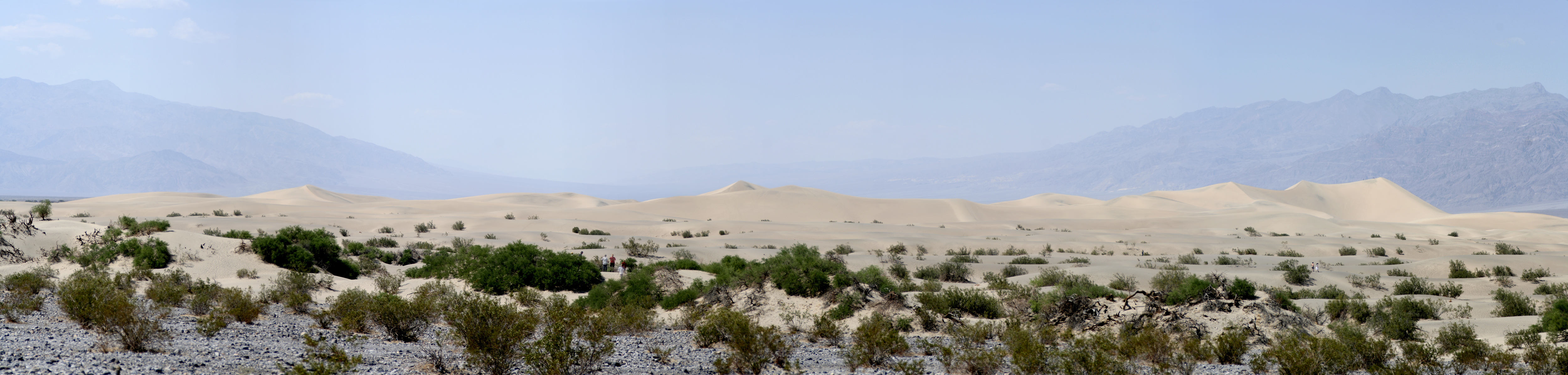 dunes at Death Valley